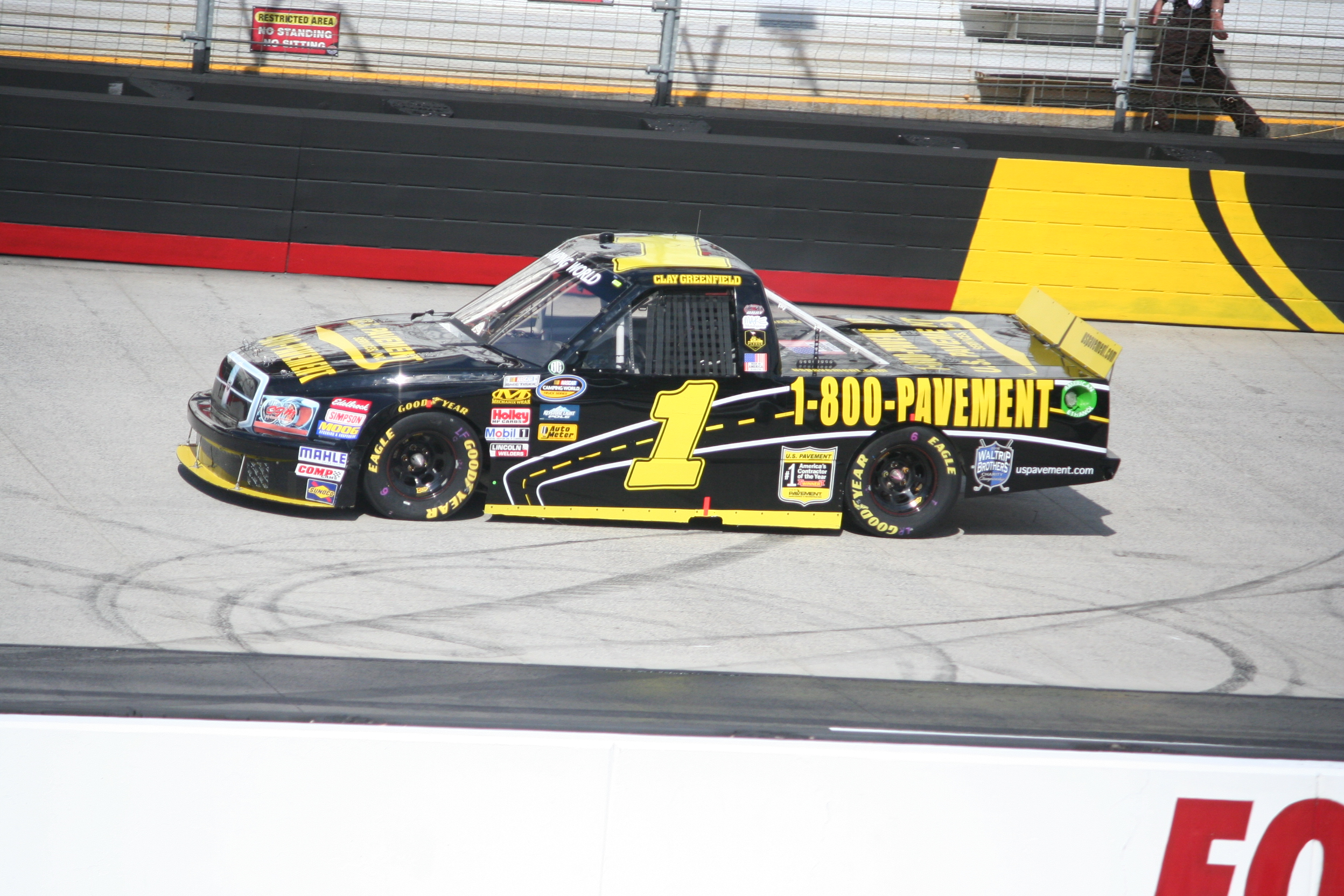 Clay Greenfield's No. 1 U.S. Pavement Services Dodge at Bristol Motor Speedway in 2016